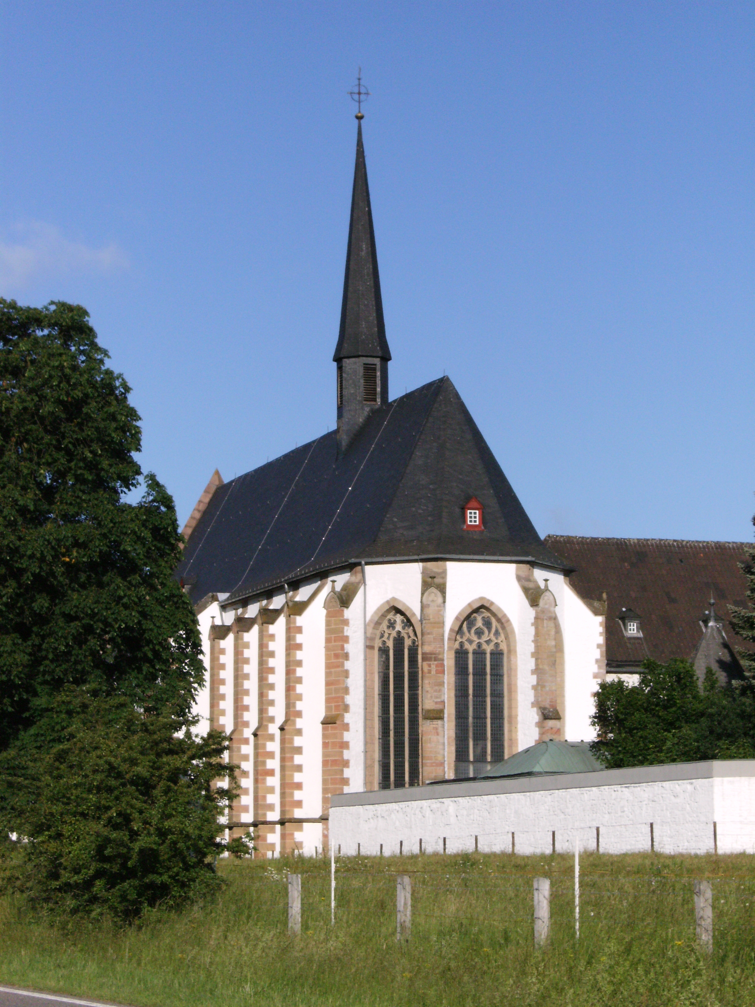 Mariawald Abbey, Heimbach, Germany